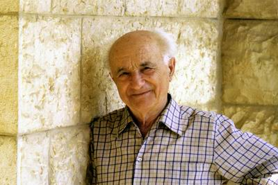 Photograph